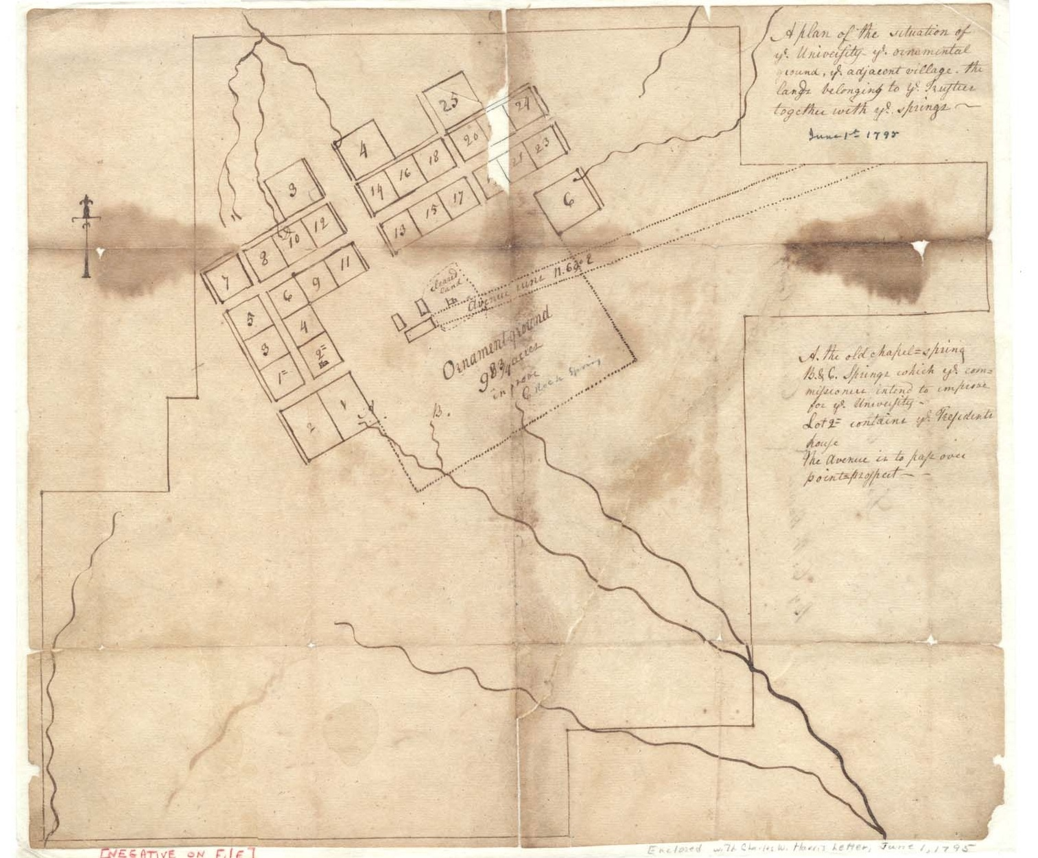 "A Plan of the Situation of Ye University, Ye Ornamental Ground, Ye Adjacent Village, the Lands Belonging to Ye Trustees," by Charles Wilson Harris, 1795. An early map of the University of North Carolina at Chapel Hill, for which the cornerstone was laid two years prior – 1793. Image courtesy of the University Archives, University of North Carolina at Chapel Hill.